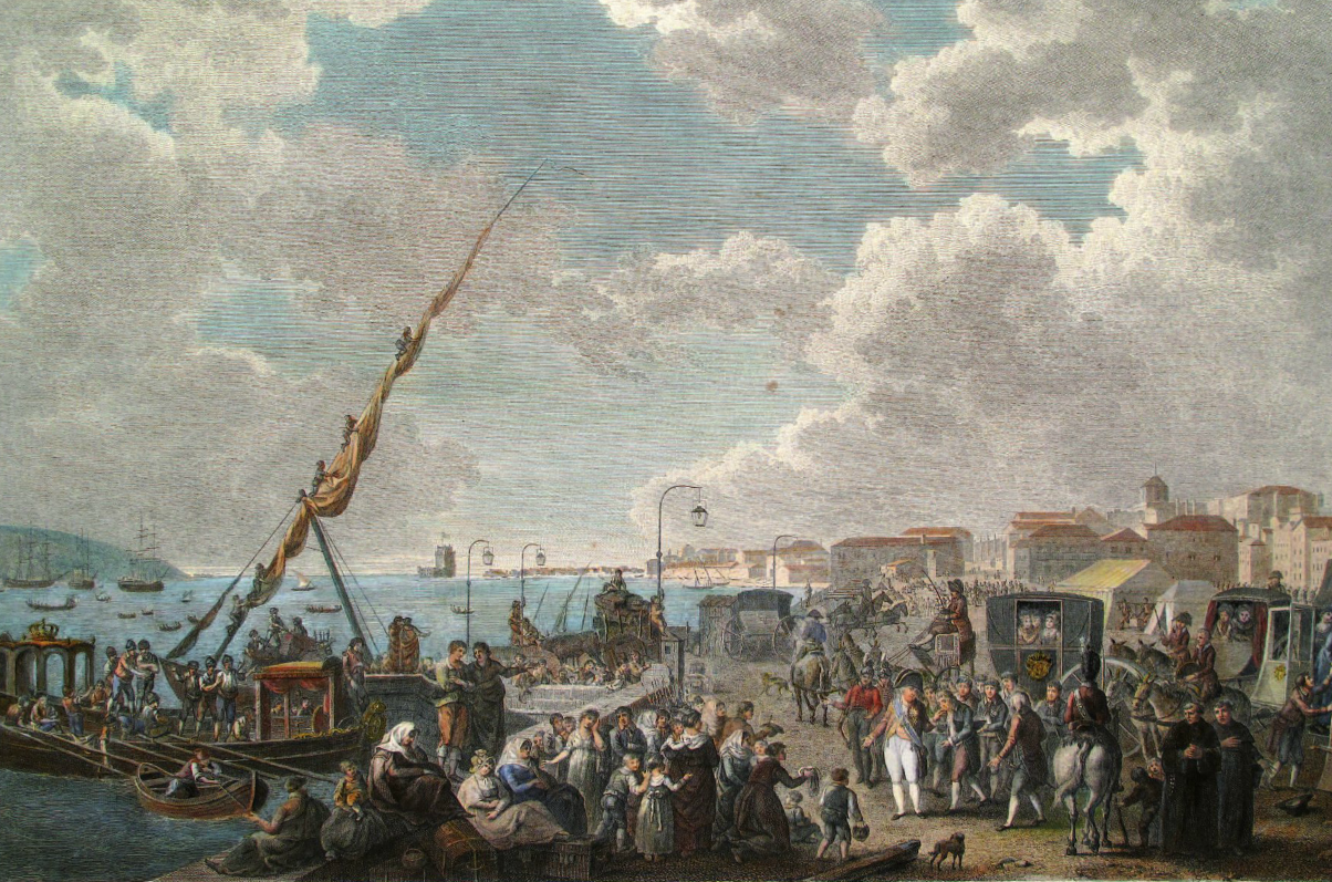 Departure of the Prince Regent of Portugal, John VI of Portugal, and all the Royal Family to Brazil.